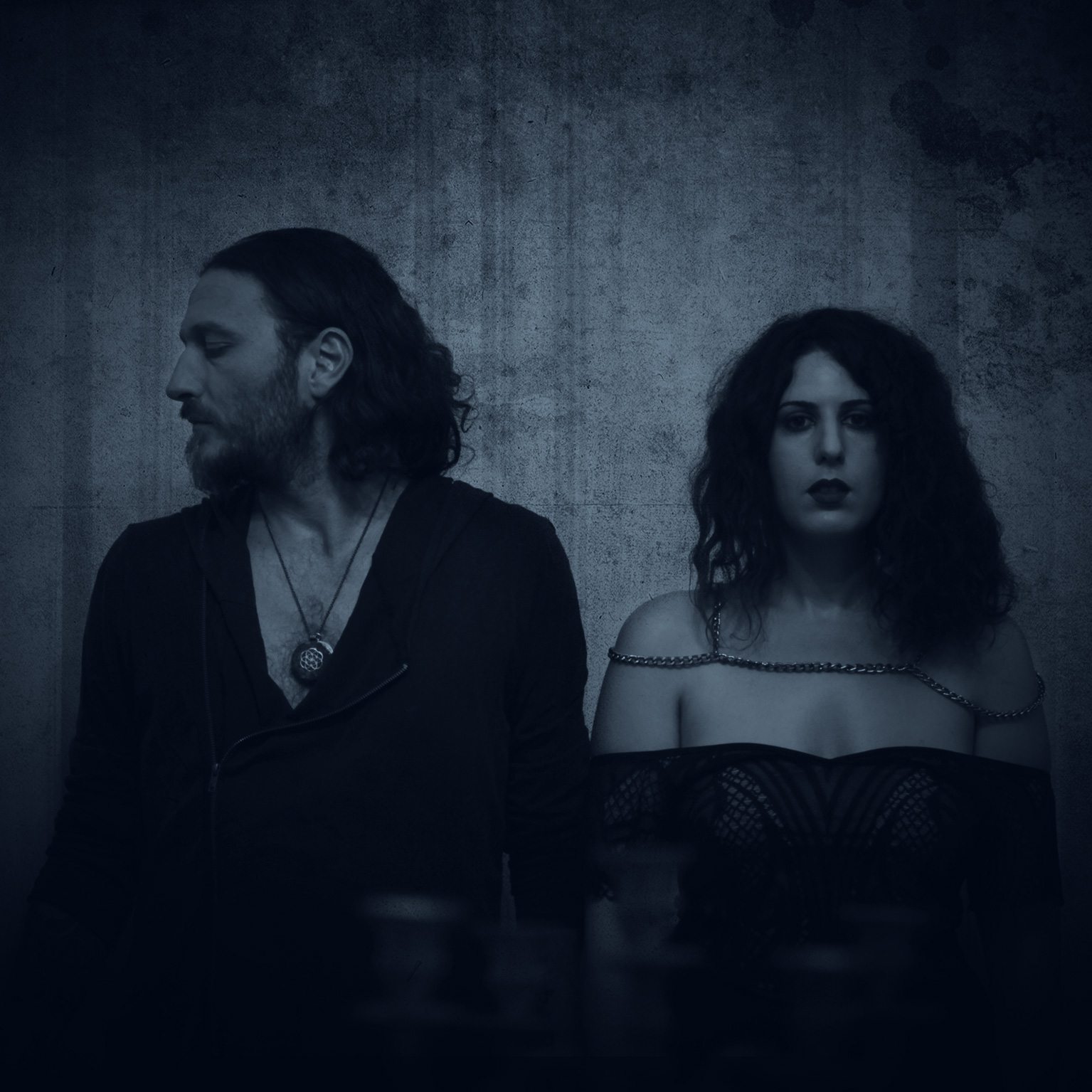 Moran Magal and Kobi Farhi